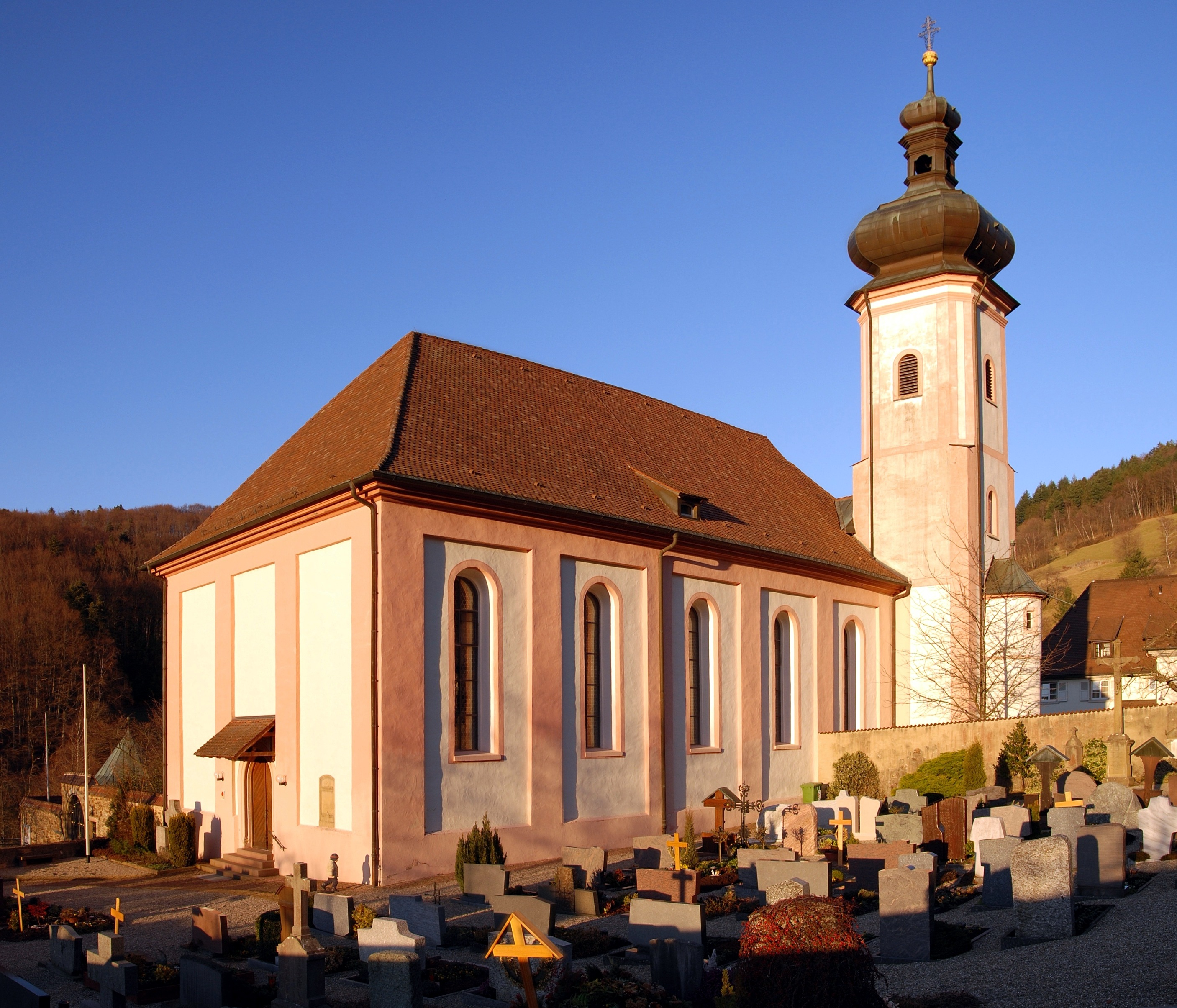 Catholic Parish Church of St. Ulrich in the Black Forest